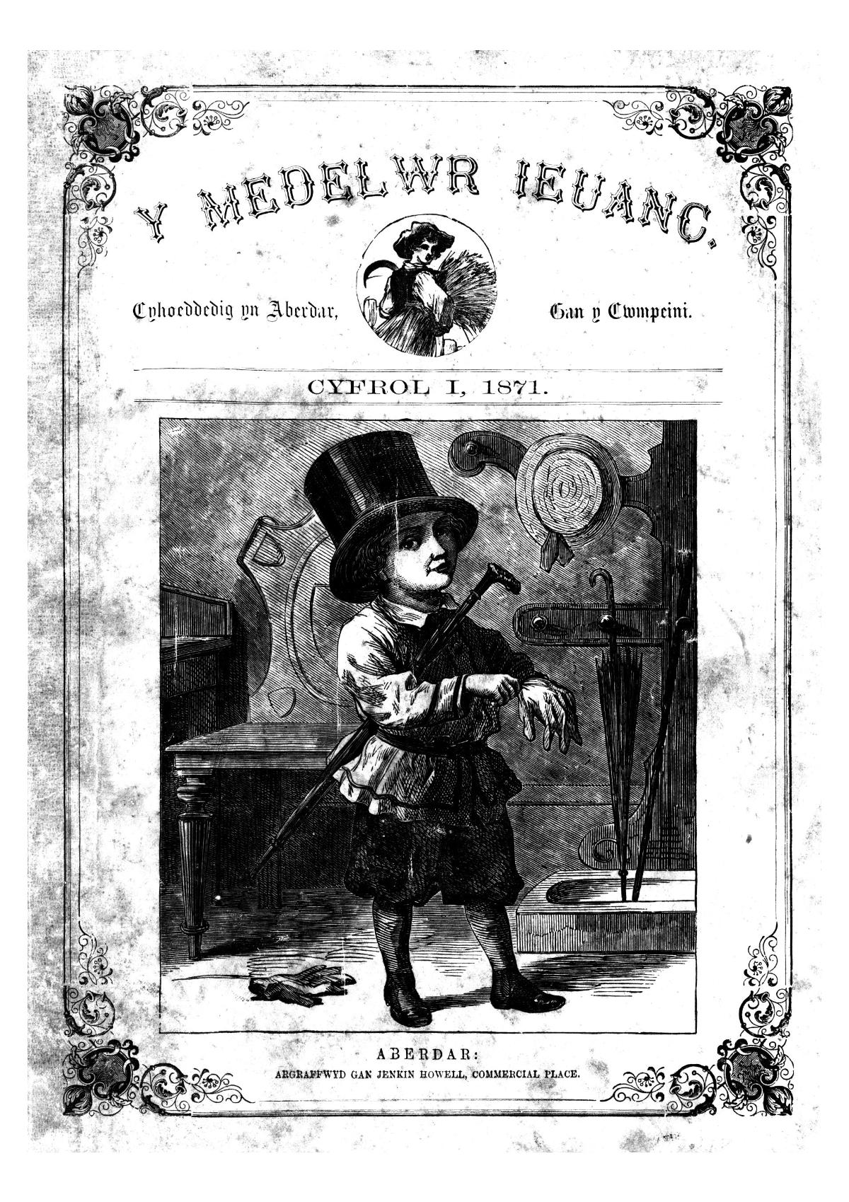 A monthly Welsh language illustrated religious periodical for children that was based on the American Baptists Publication Society's periodical, The Young Reaper. Despite claiming to be non-denominational it was edited by an editorial board comprised of prominent Baptists including the ministers Thomas Price (1820-1888), John Rhys Morgan (Lleurwg, 1822-1900) and John Rufus Williams (1833-1877). Associated titles: The Young Reaper (1844).